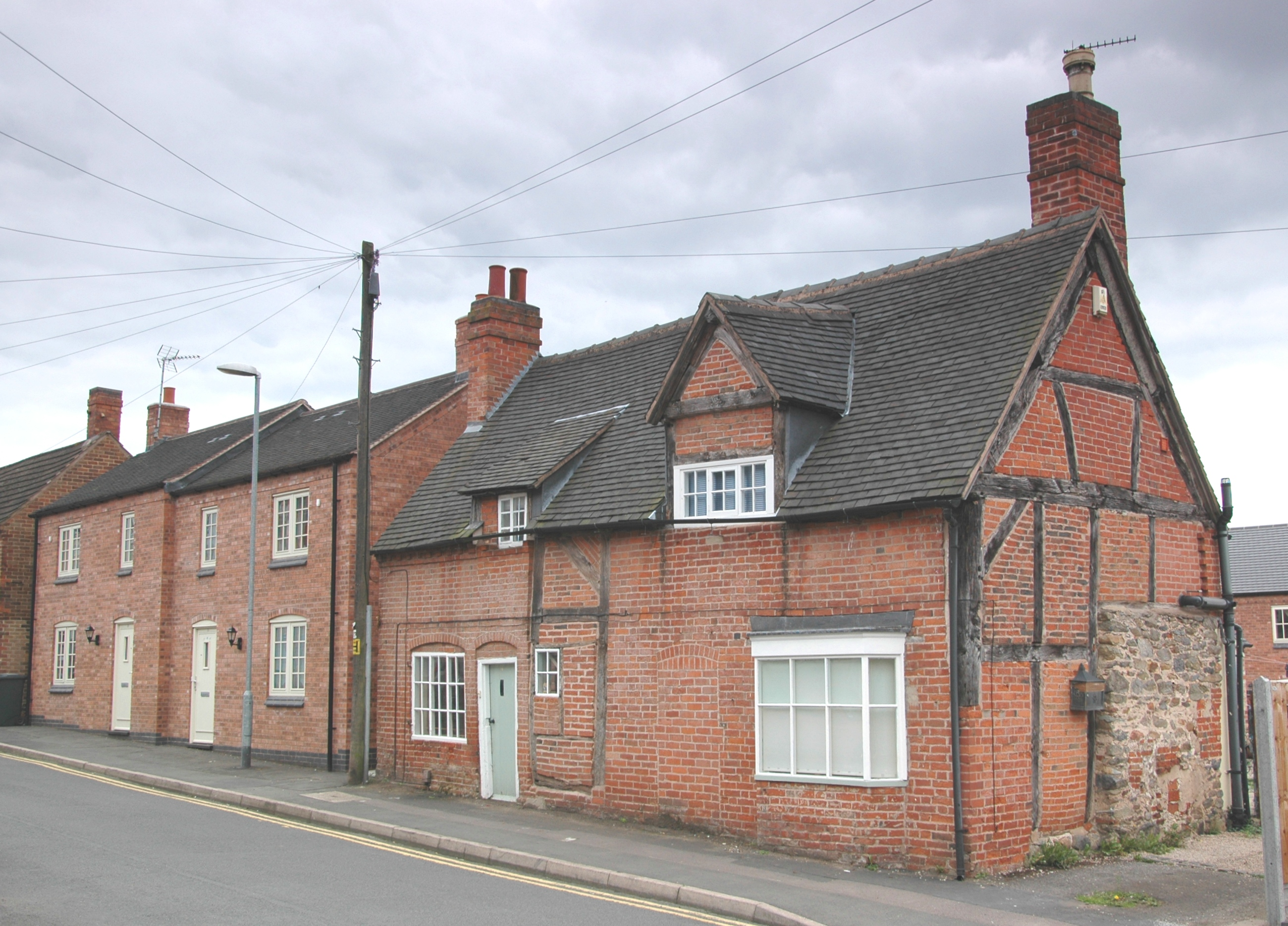 Late 16th and early 17th century timber-framed vernacular cottage at 16 Dennis Street, Hugglescote, Leicestershire